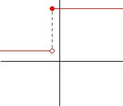 A right continuous function